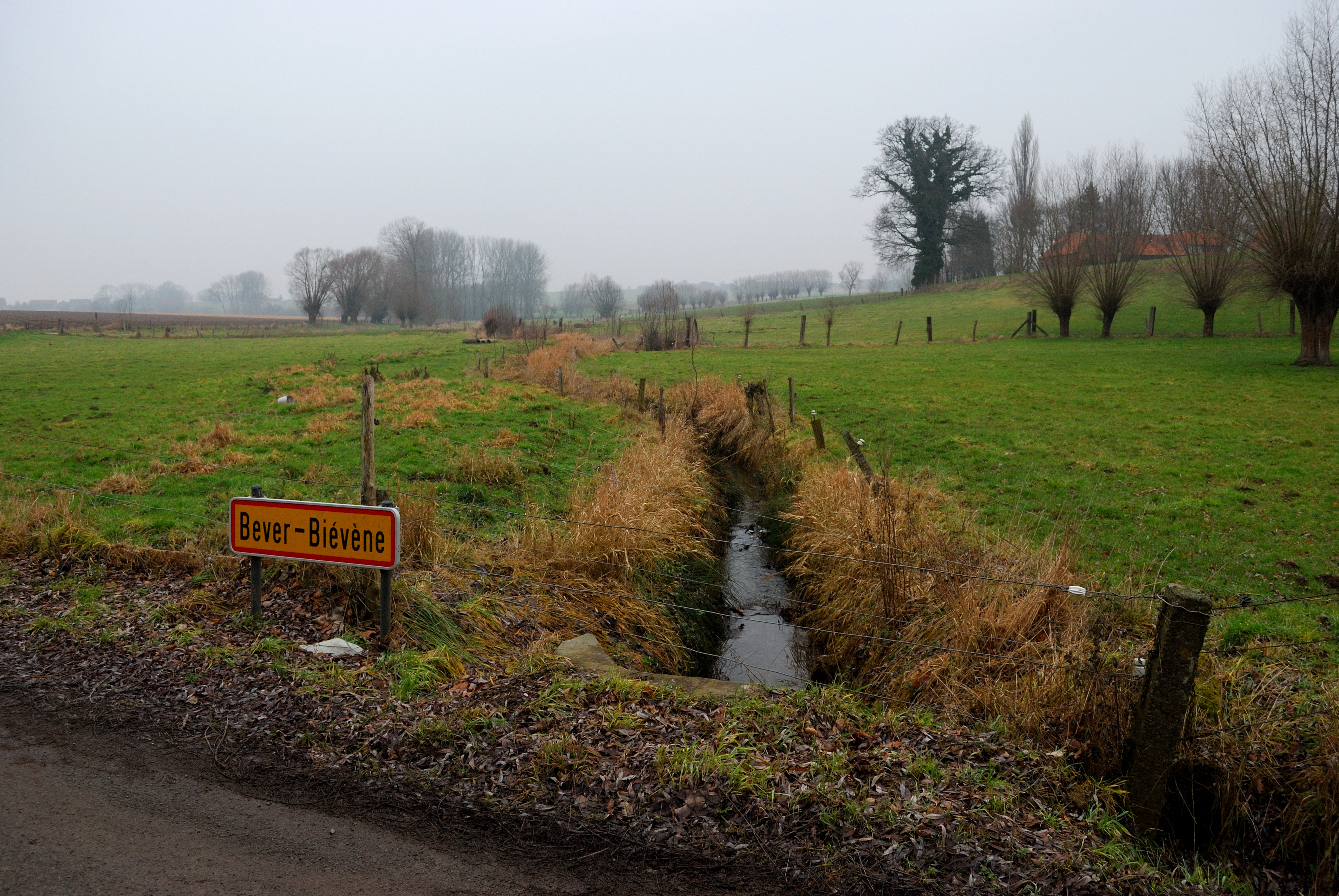 Eisbroekbeek creek on the border of the Belgian communes of Bever and Herne (subcommune of Sint-Pieters-Kapelle). Nikon D60 f=18mm f/5.6 at 1/125s ISO 400. Processed using Nikon ViewNX 1.5.2.